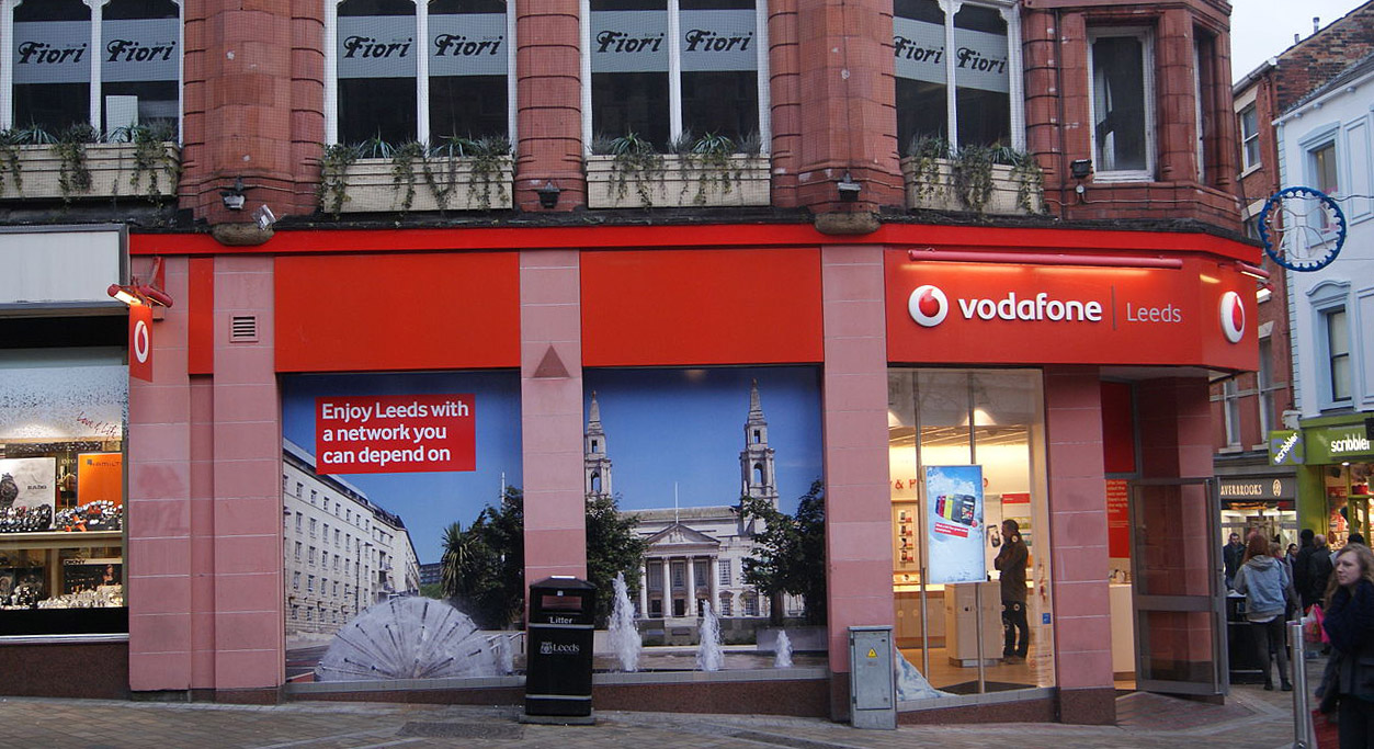 Vodafone shop, Lands Lane, Leeds, West Yorkshire. Taken on the afternoon of Monday the 17th of December 2012.